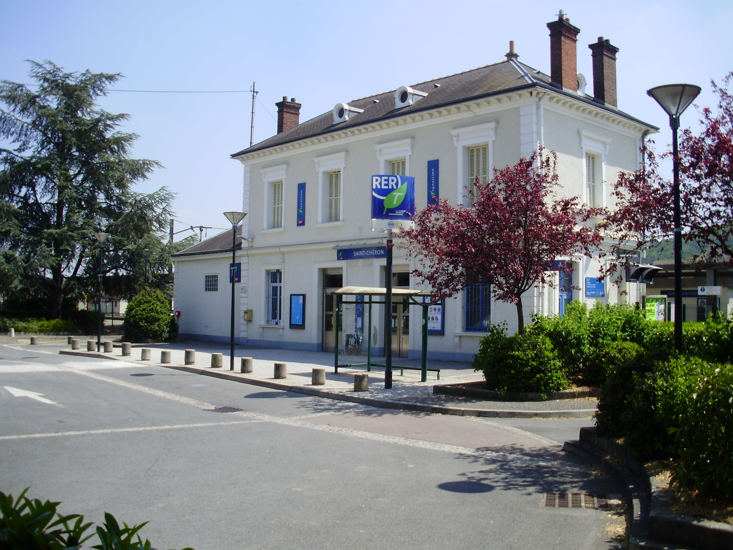 Saint-Chéron station, Essonne, France